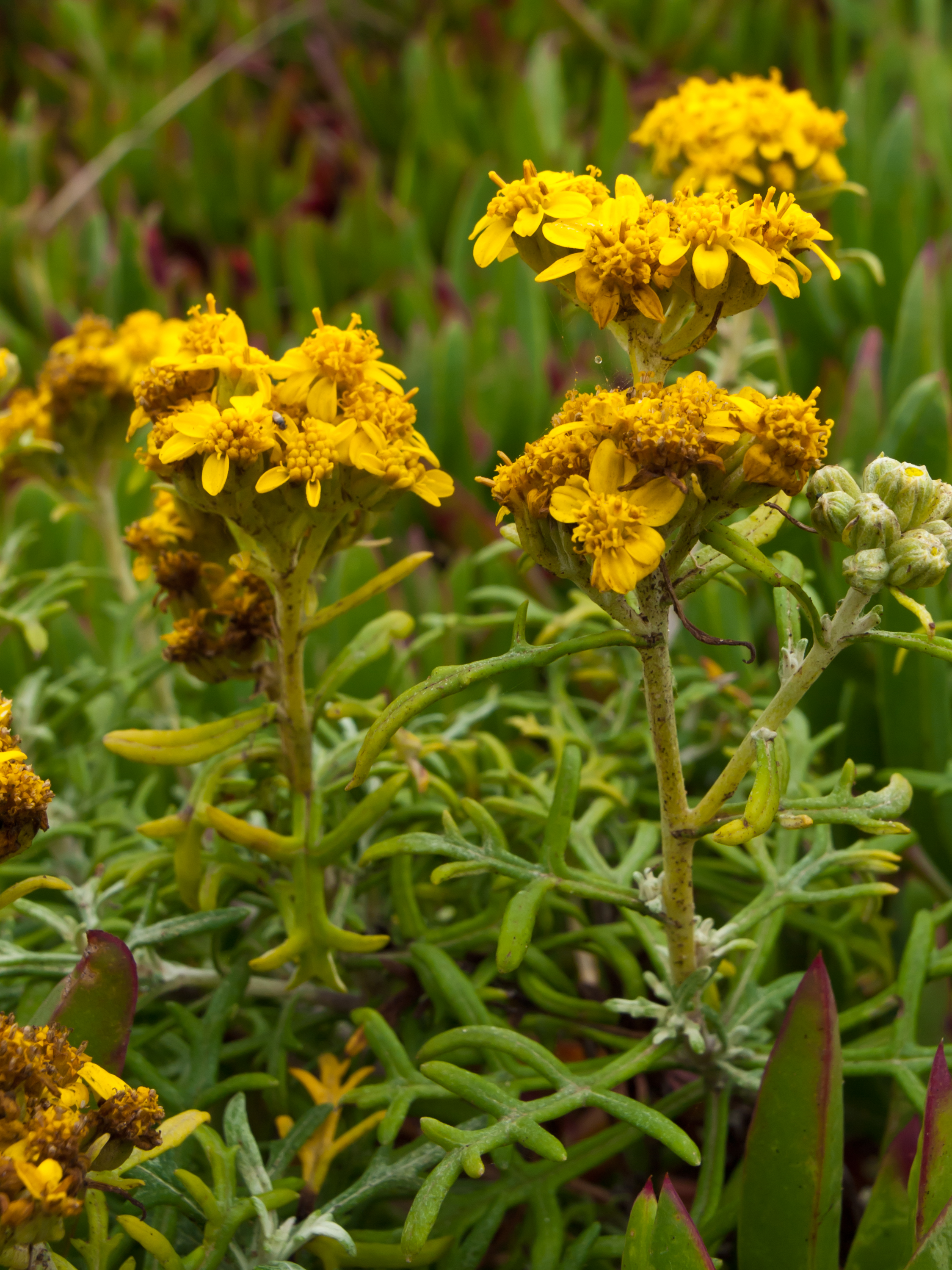 Lizard Tail (Eriophyllum staechadifolium) Fort Cronkhite Marin County, CA